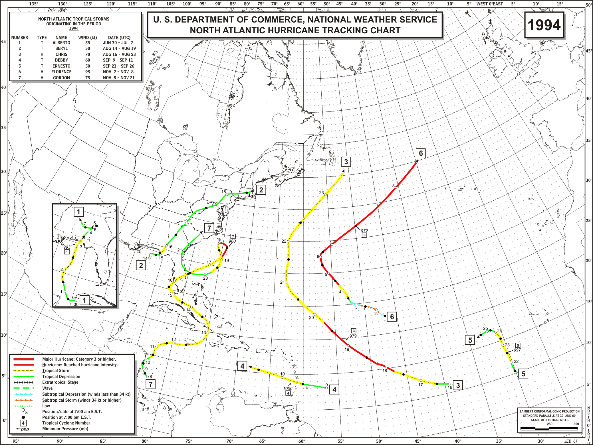 Season summary provided by NOAA of the 1994 Atlantic hurricane season. Track map of the 1994 Atlantic hurricane season